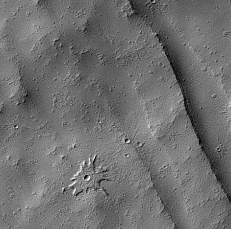 Biblis Patera Pedestal Crater, as seen by hirise. Location is 1.9 degrees north latitude and 235.7 degrees east longitude. Image was taken by the Mars Reconnaissance Orbiter's HiRISE. The HiRISE camera was built by Ball Aerospace and Technology Corporation and is operated by the University of Arizona. Image courtesy NASA/JPL/University of Arizona.